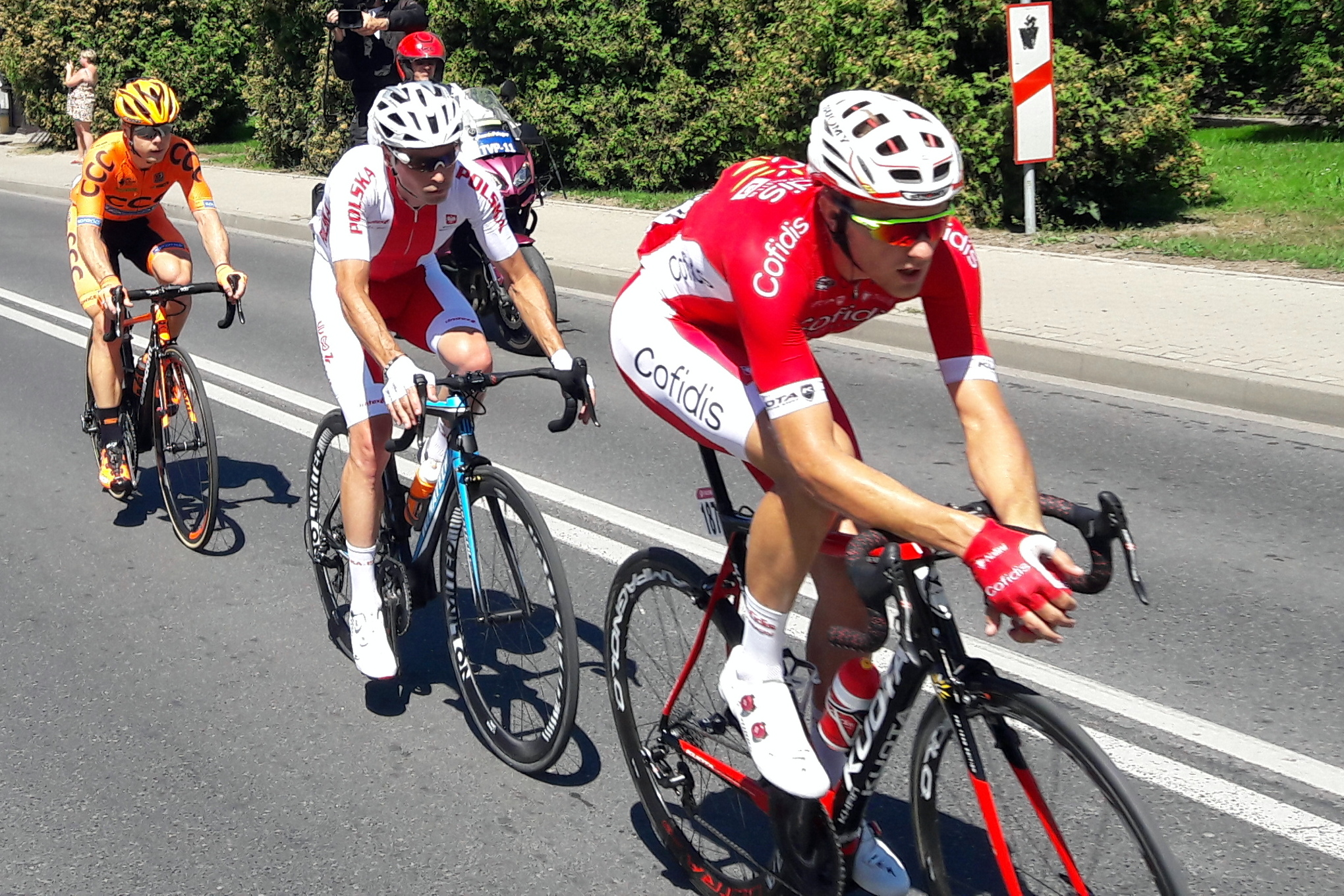 Tour de Pologne 2018